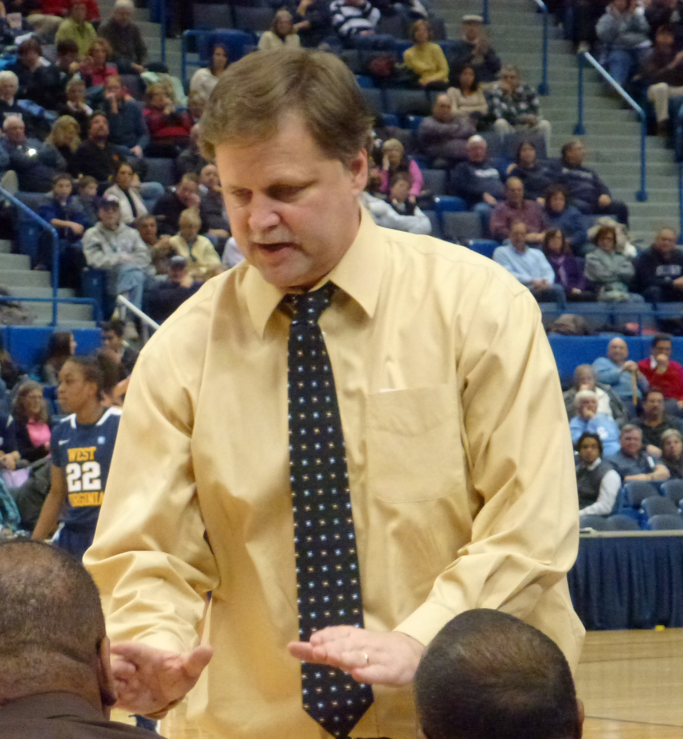 Mike Carey conversing with coaching staff during West Virginia - UConn game 4 January 2012, held in the Veterans Memorial Coliseum in the XL Center, Hartford CT.